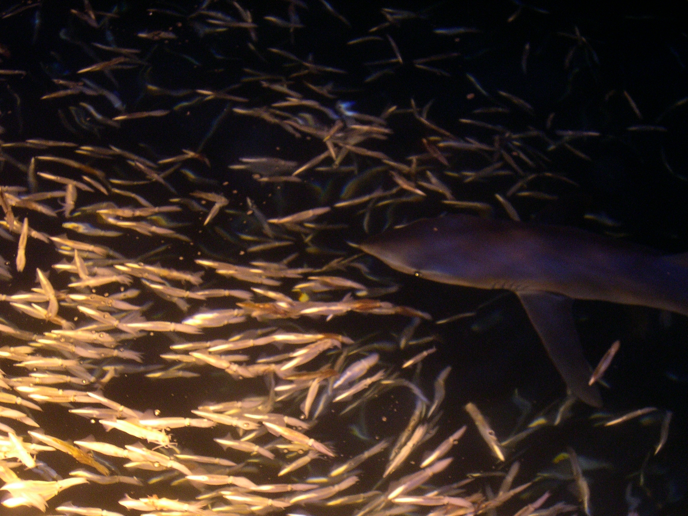 Blue shark (Prionace glauca) feeding on squid, Southern California Bight.